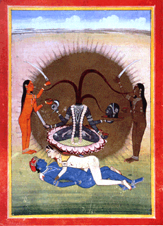 Chinnamasta India: Rajasthan Eighteenth century CE "The blood of a goddess symbolically feeds the world and also herself. That represents the "eternal cycle" of psychic life supporting the ego for the sake of the Self."